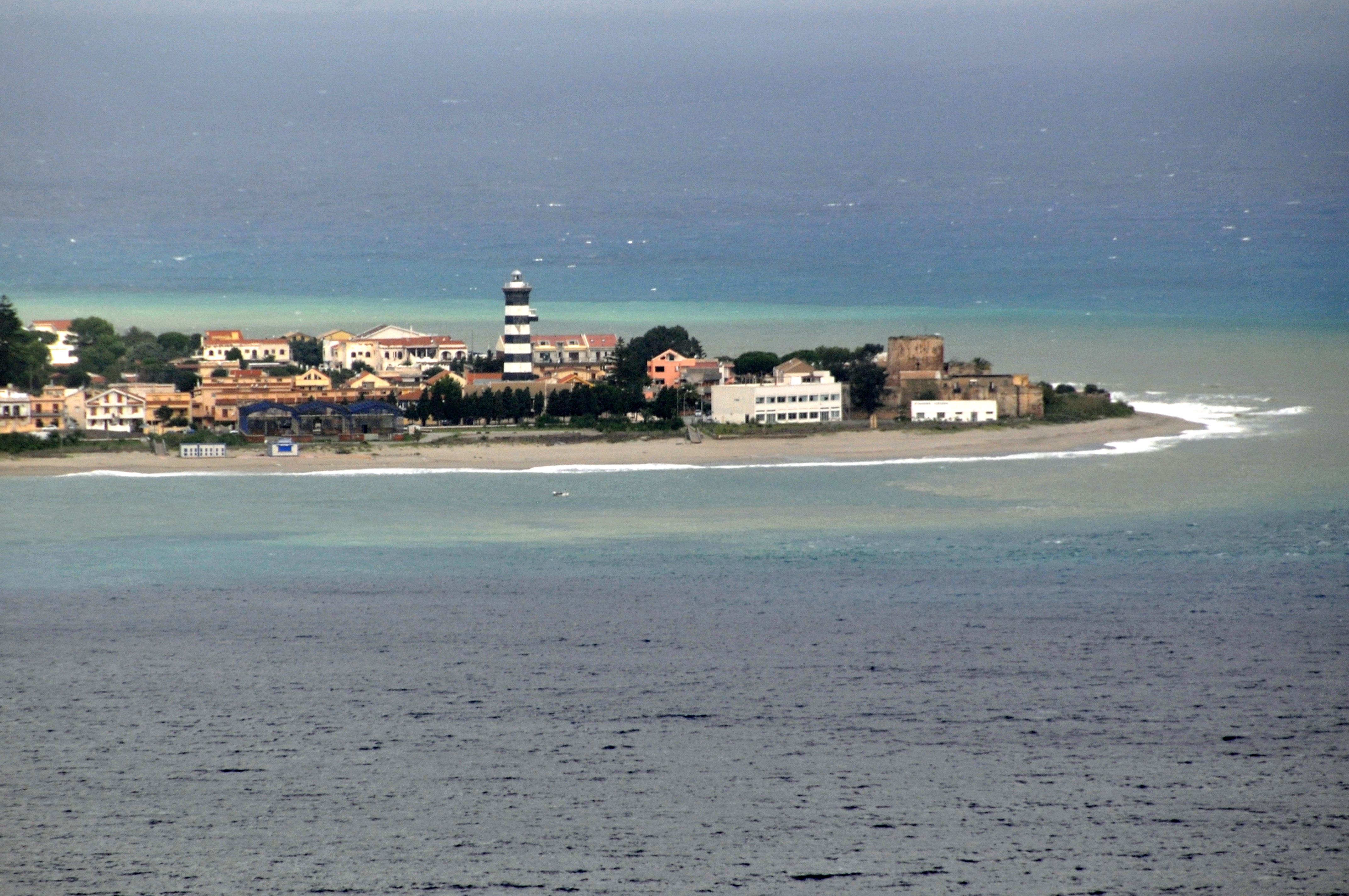 My photos are FREE for anyone to use, just give me credit and it would be nice if you let me know. Thanks This lighthouse was built in 1884, it is 37m (121ft) high, it use to be 42m (138ft). It was shortened after it was damaged after a earthquake and tsunami in 1908, which destroyed 90% of the buildings in Messina and killed more than 100,000 people. It is a octagonal masonry tower with lantern and gallery, rising from a one story masonry keeper's house. This lighthouse marks the extreme northeastern tip of Sicily and the west side entrance to the Strait of Messina from the Tyrrhenian Sea.